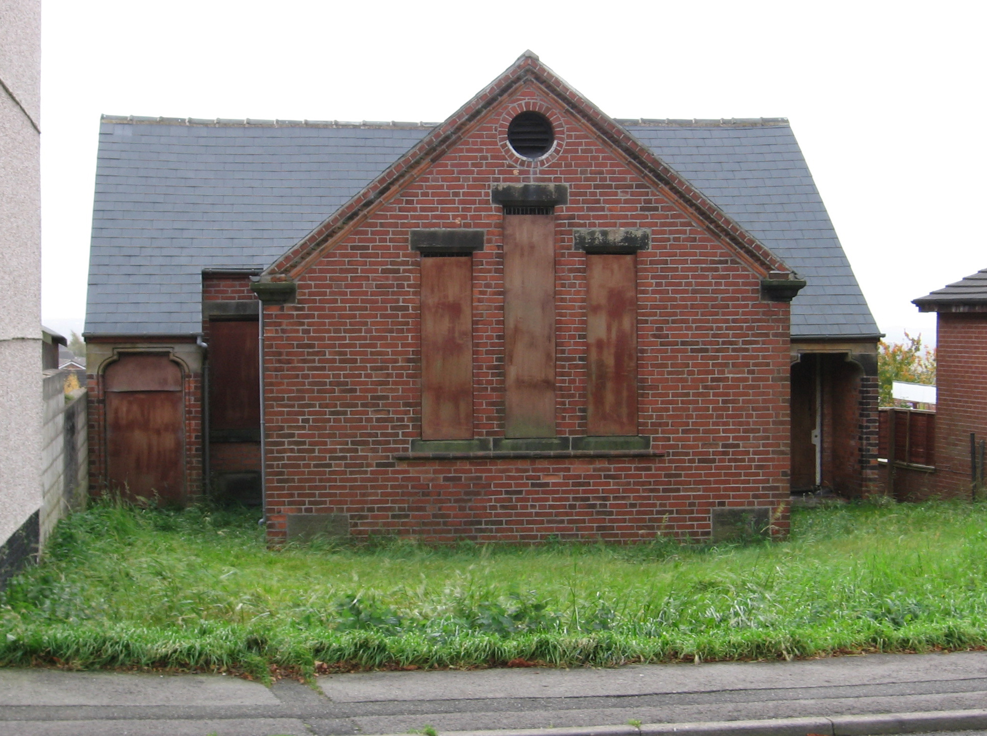 Newton - old school